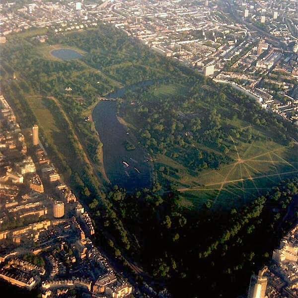 An aerial shot of Hyde Park, London